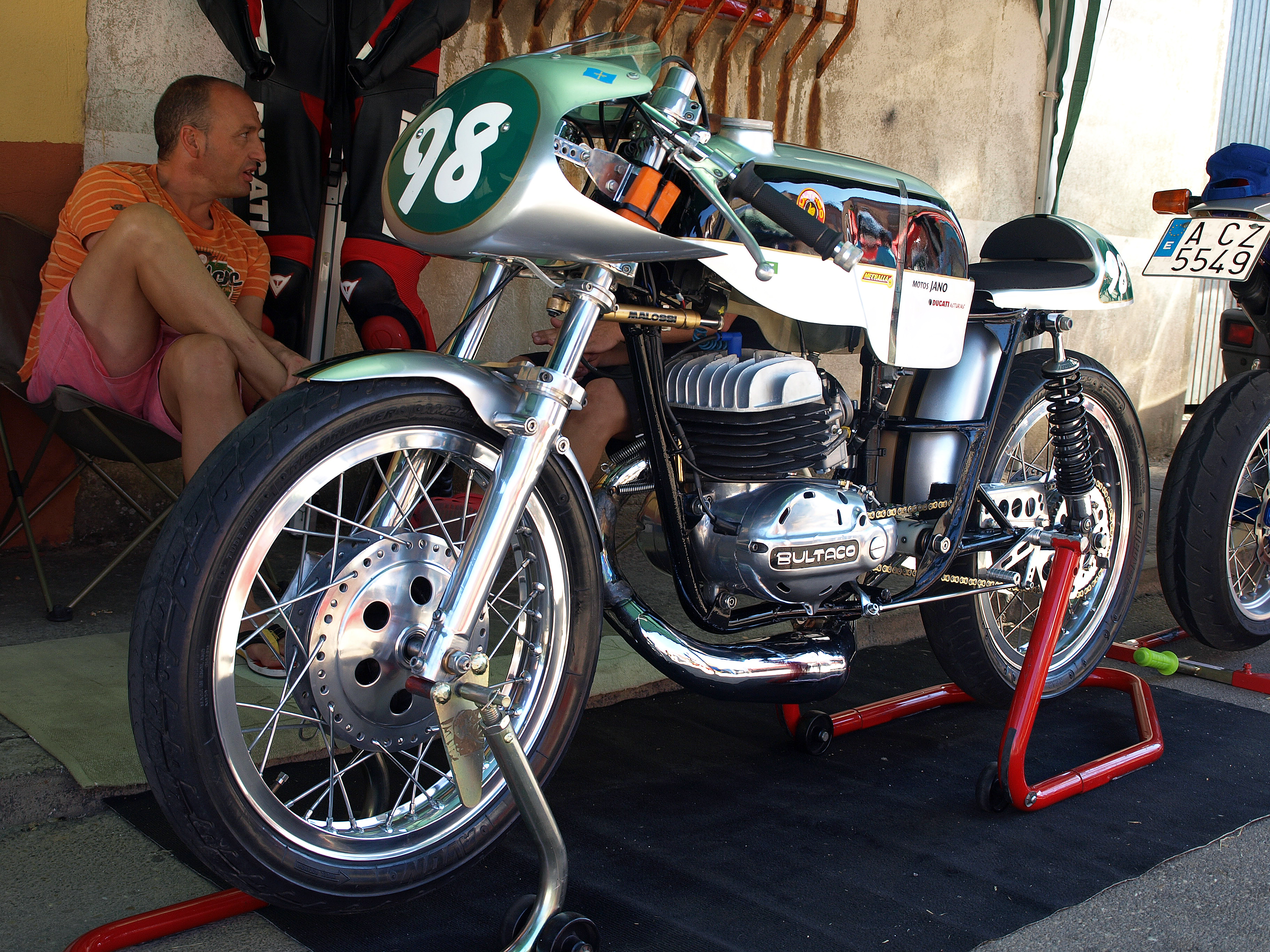 Bultaco Metralla, probably an Mk2 kit america, in the La Bañeza spanish Classic motorbikes race (2008) Engine is from a later model, exhaust not genuine Bultaco